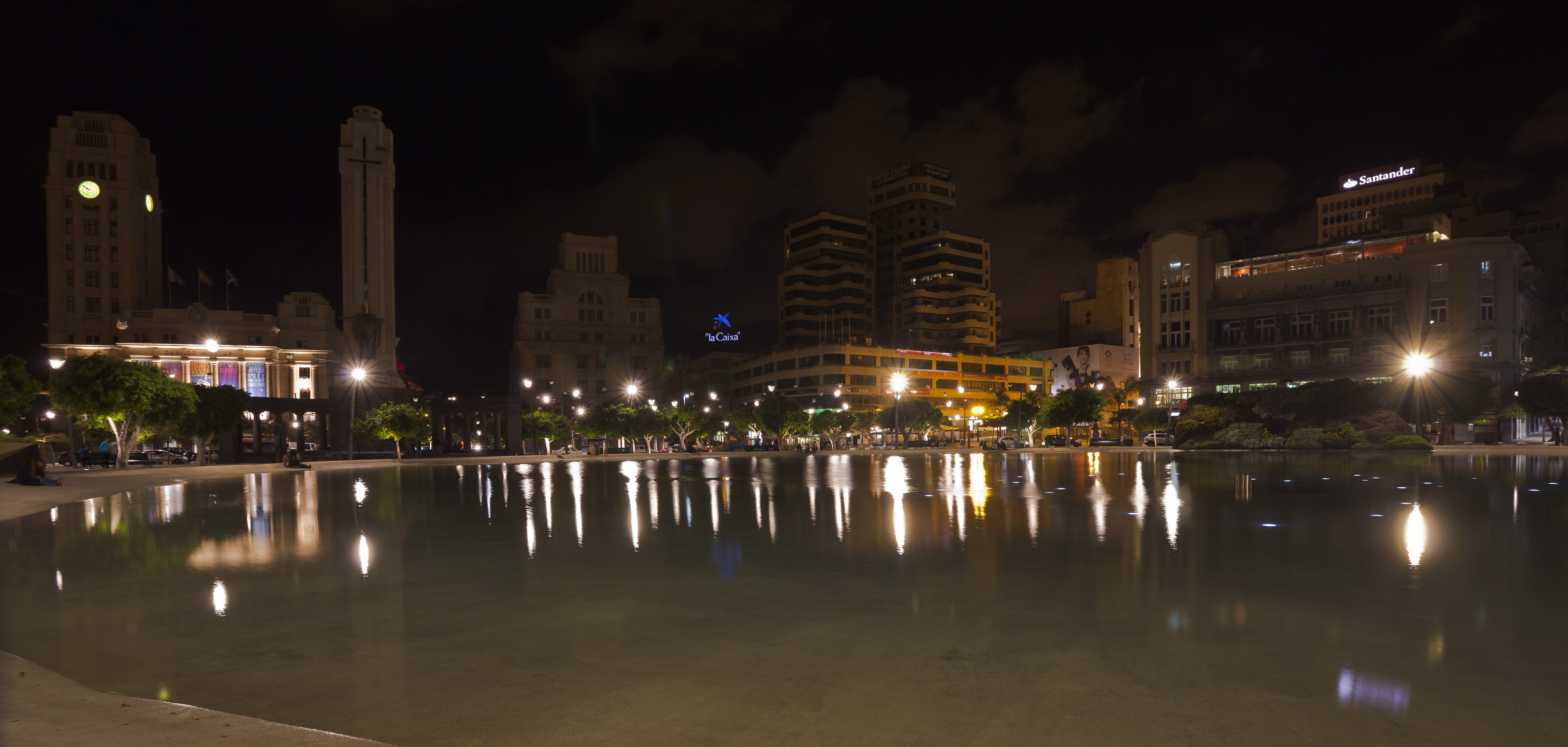 Square of Spain, Santa Cruz de Tenerife, Spain